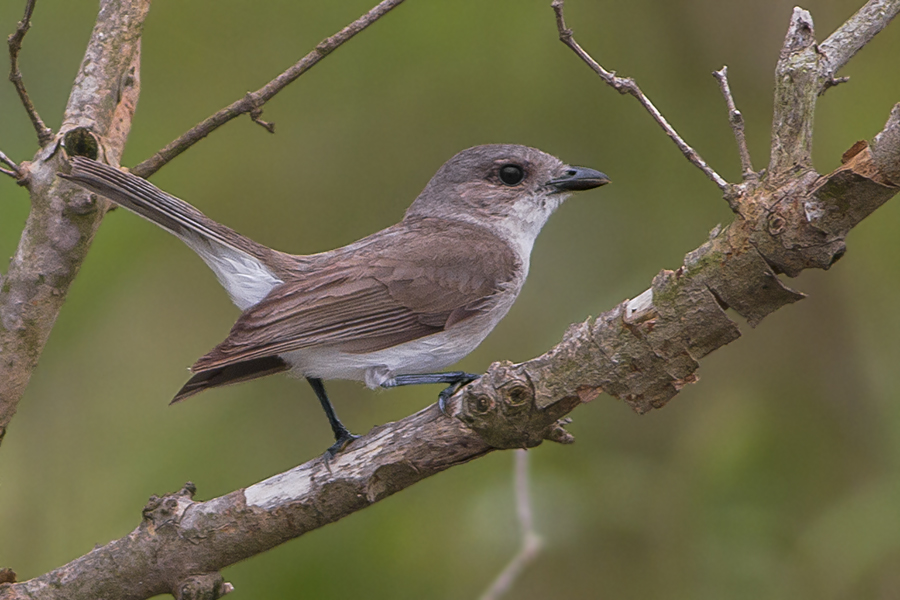 The specie Mangrove Whistler had been photographed from the mangroves of Sundarbans on 24.06.2015.